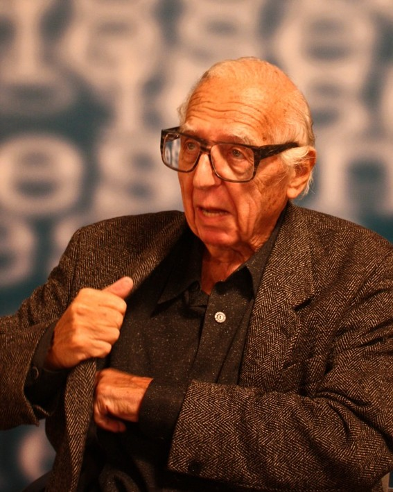 Georg Kreisler in Ravensburg.